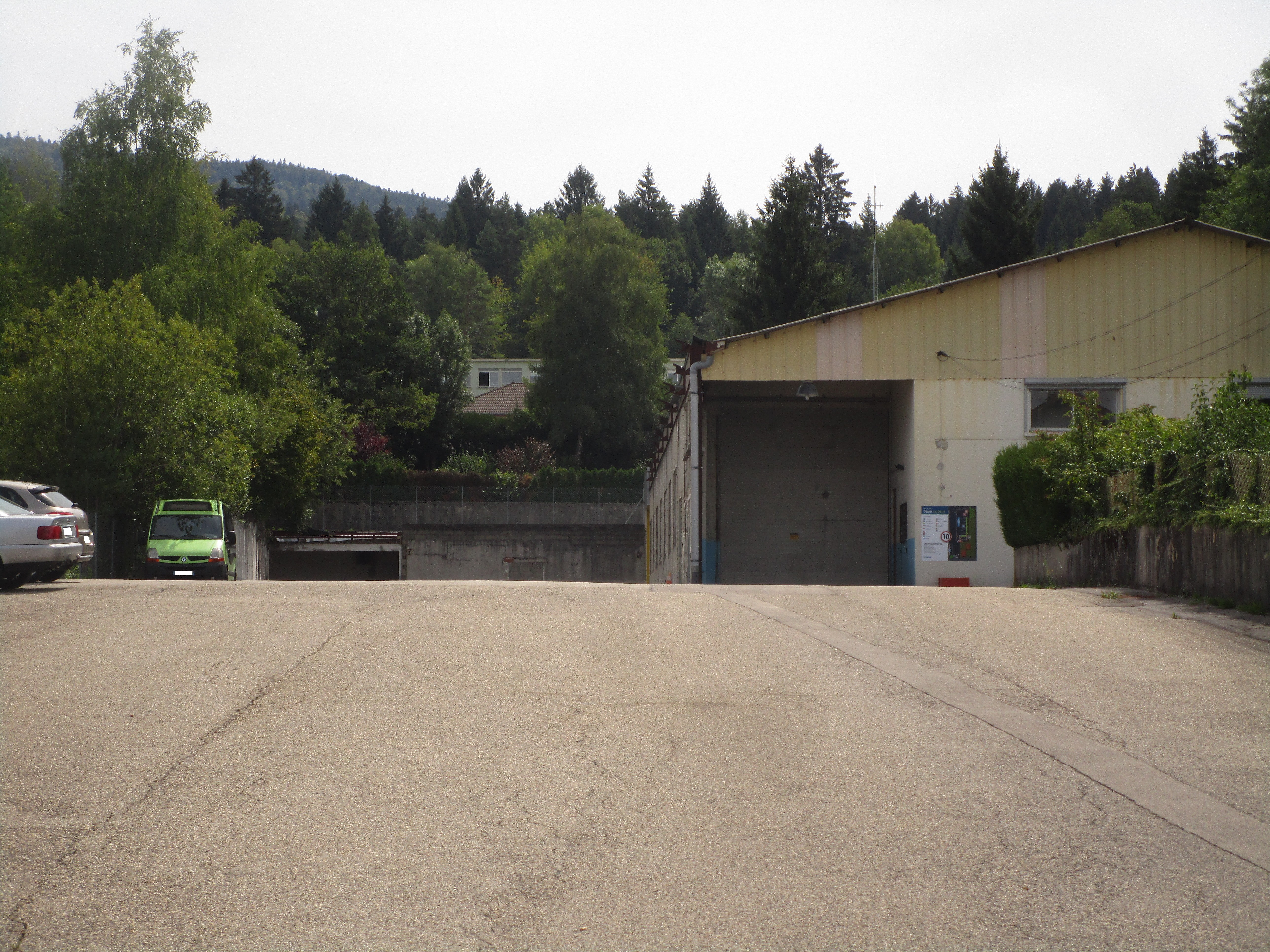 The yard of Keolis Oyonnax, in Rue de la Tuilerie (Arbent, France), on August 16, 2017.